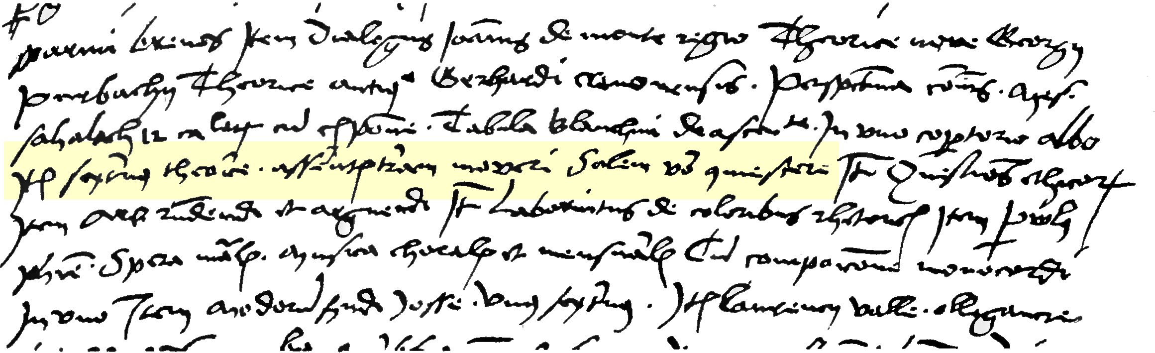 Item sexternus theorice asserentis terram moveri, Solem vero quiescere